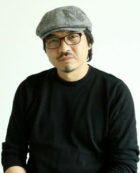 Benson Lee